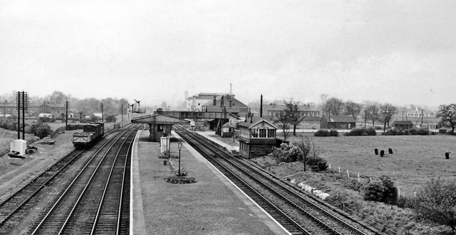 Barnby Dun Station, Near to Kirk Sandall, Doncaster, Great Britain. View SW, towards Doncaster. This station on the important line from Doncaster to Hull and to Grimsby and Cleethorpes was too far from the village, so was closed on 4/9/67, but replaced by the present Kirk Sandall station nearer Doncaster, opened on 13/5/91.